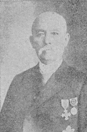 A businessman from Japan,鈴木清（Kiyoshi Suzuki）.He was the president of Sekishinsha.